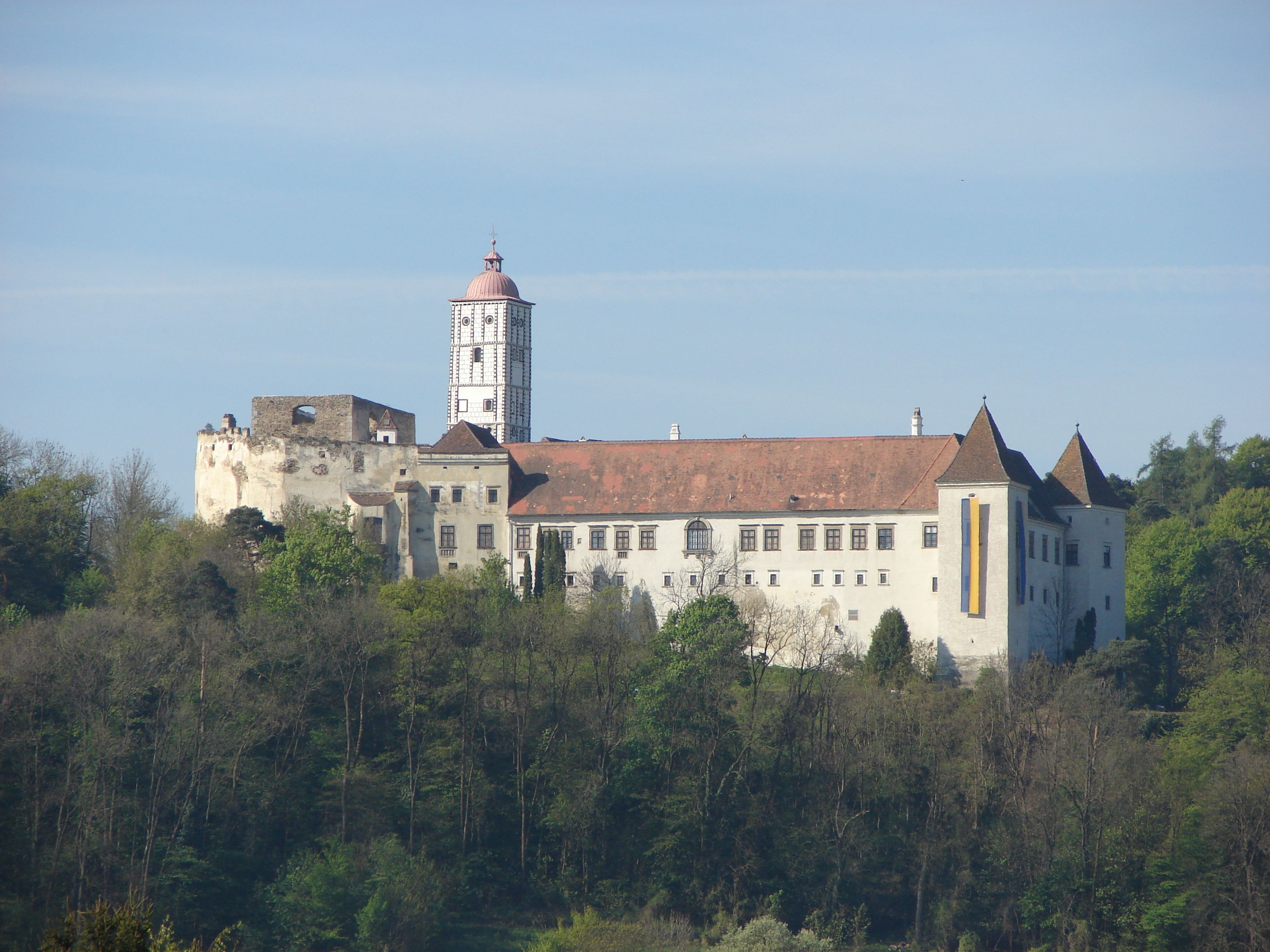 Schallaburg Castle in Lower Austria seen from northeast.